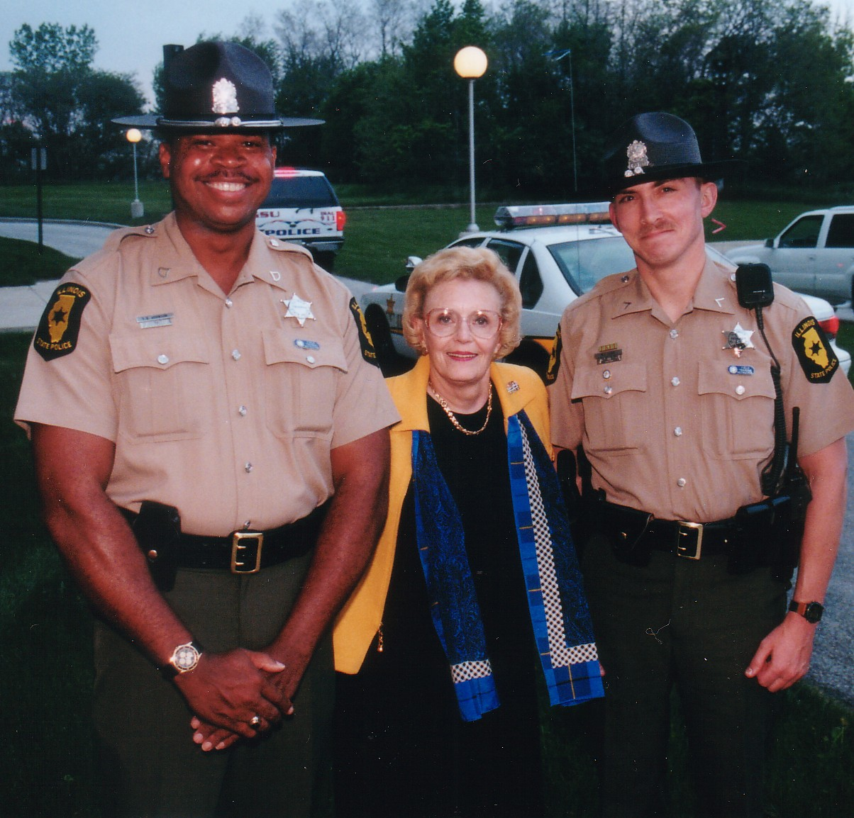 Flickr description she was very sweet and she & Gov. Ryan made the time to talk with us and pose for photos even though they didn't have to. We were working a security detail in University Park